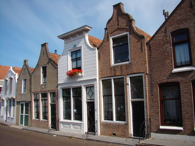 Impressions of Zierikzee Netherlands